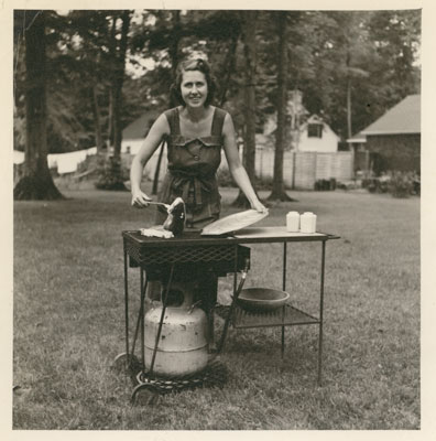 This is the first portable gas grill by LazyMan. This shot was taken during the summer of 1954. You can see the plumbers propane gas tank attached.